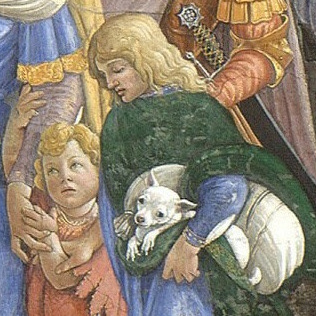 detail showing a boy with a small dog, presumably a Chihuahua